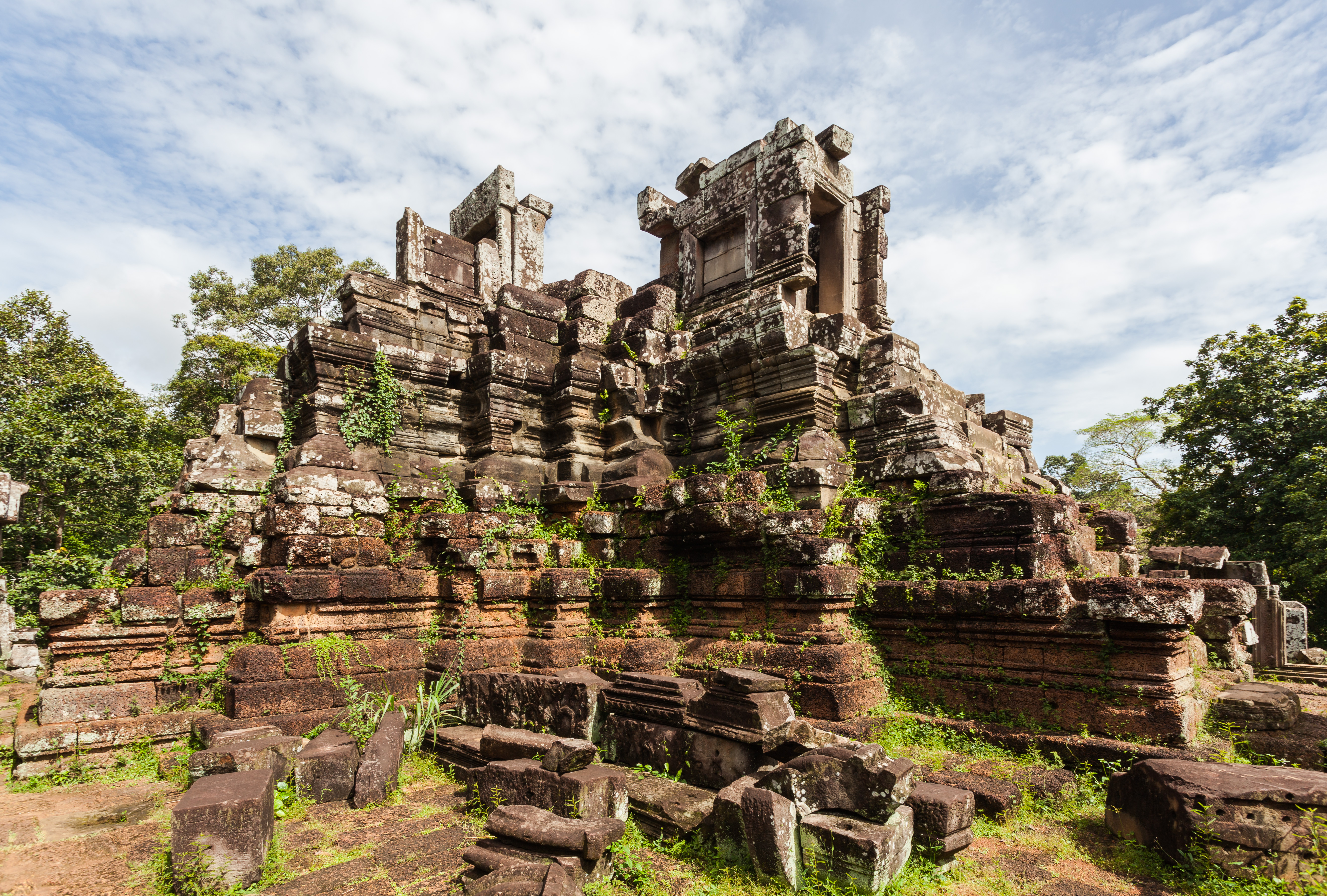 Phimeanakas, Angkor Thom, Cambodia